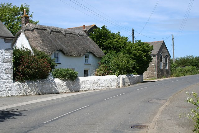 Thatched Cottage and Disused Methodist Church. The building beyond the cottage on the roadside was probably the church Sunday school, the church itself being set back from the road and hidden behind a tree on this photo. It is now houses a small industrial concern.